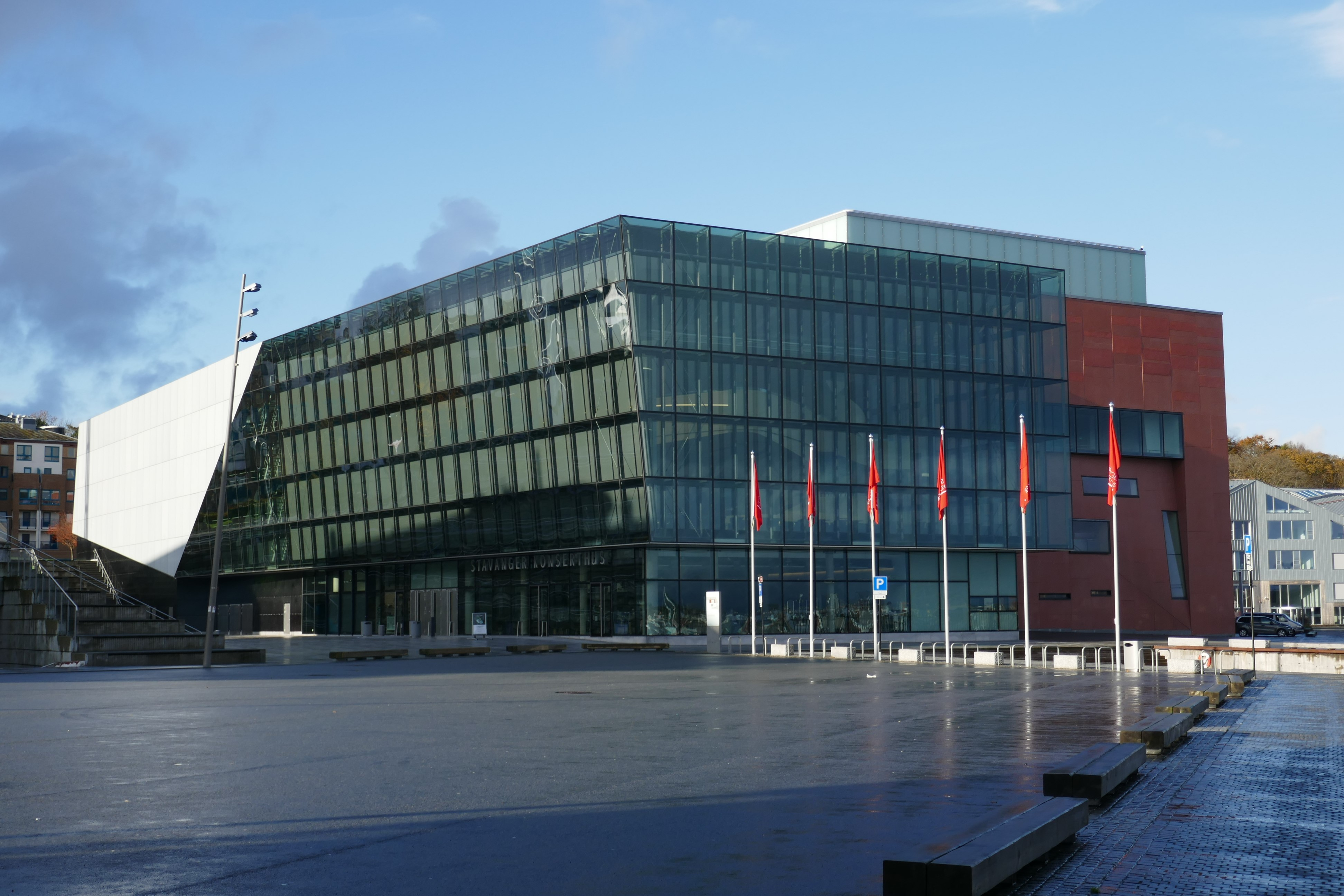 Stavanger Concert hall